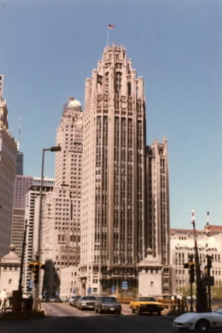 photo by Einar Einarsson Kvaran Chicago Tribune (year: ????)